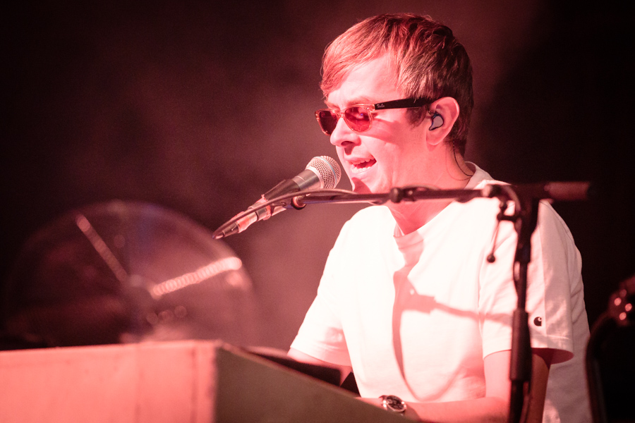 Michael Bannister with Texas live on stage at Rockefeller Music Hall. The concert took place on 24. September 2018 in Oslo. Lineup: Sharleen Spiteri (vocal) Johnny McElhone (bass guitar) Ally McErlaine (guitar) Eddie Campbell (keyboard) Ross McFarlane (drums) Michael Bannister (keyboard) Tony McGovern (guitar and vocal)